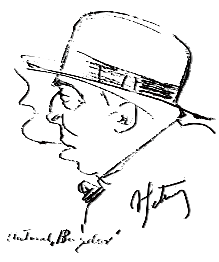 Caricature of Caton Theodorian, Romanian writer, drawn at the literary café Terasa Otetelișanu.